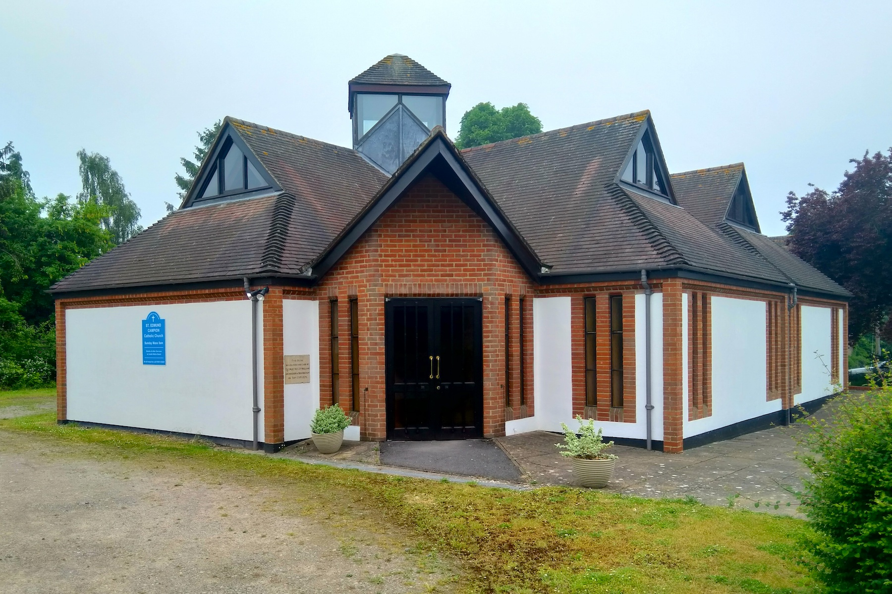 St Edmund Campion Roman Catholic church in Watlington, Oxfordshire UK, taken in May 2018